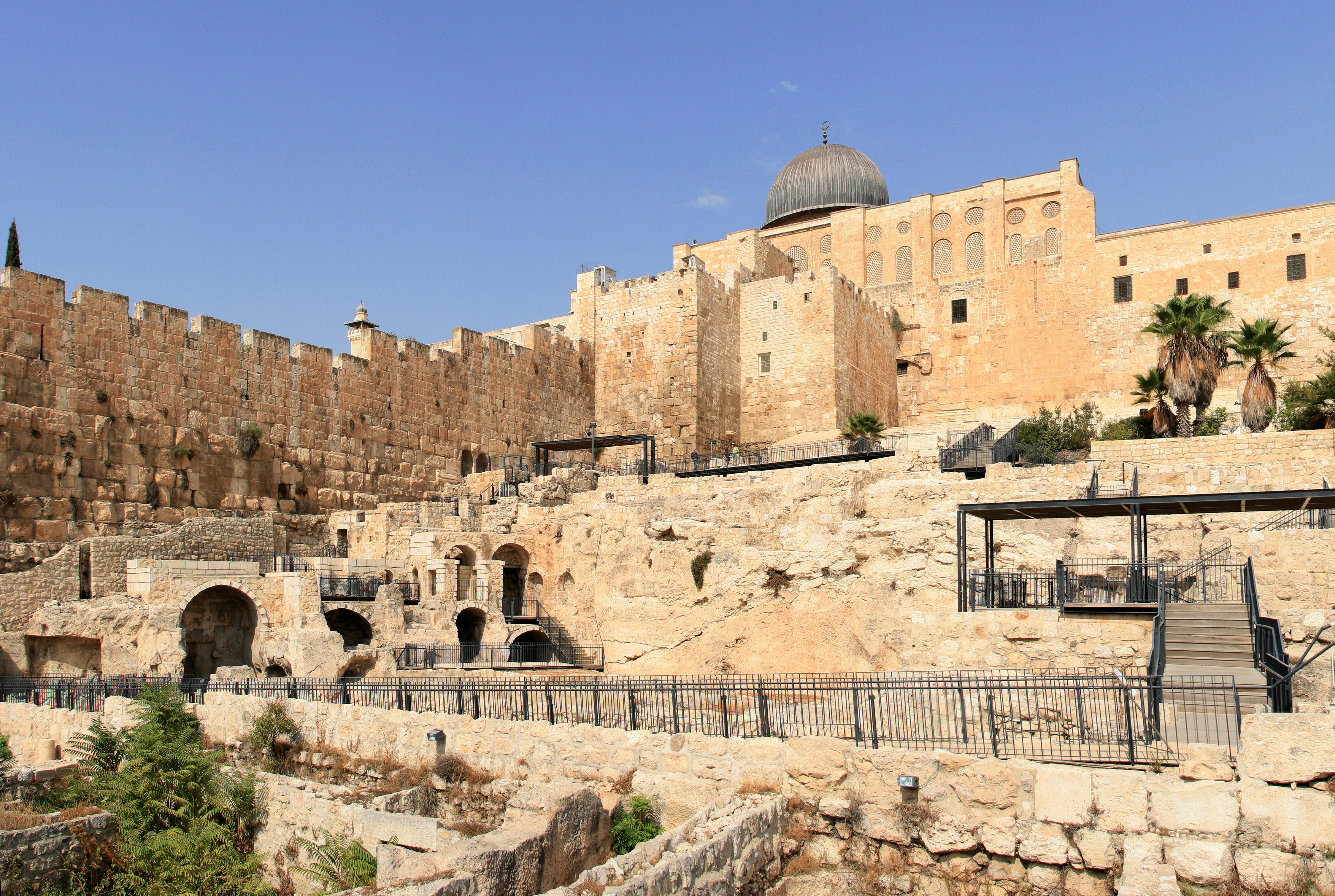 Al-Aqsa Mosque, Crusaders tower and Archaeological Park at southern wall of the Temple Mount, Jerusalem, Israel